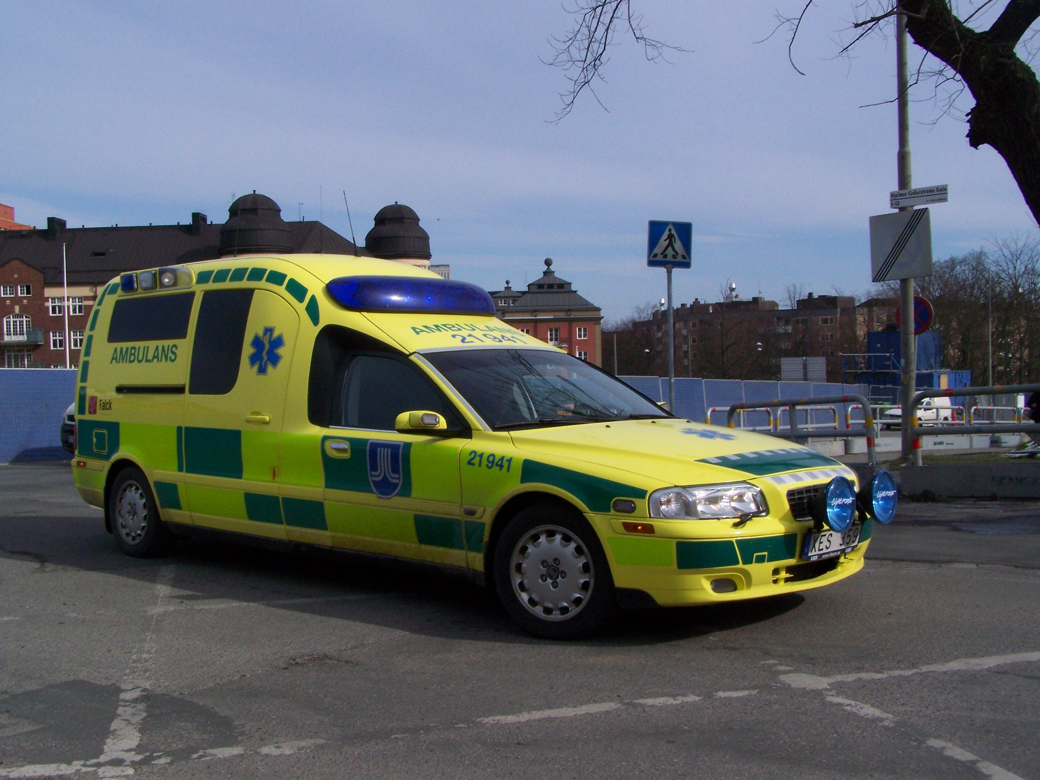 Ambulance 21 914 from Sweden